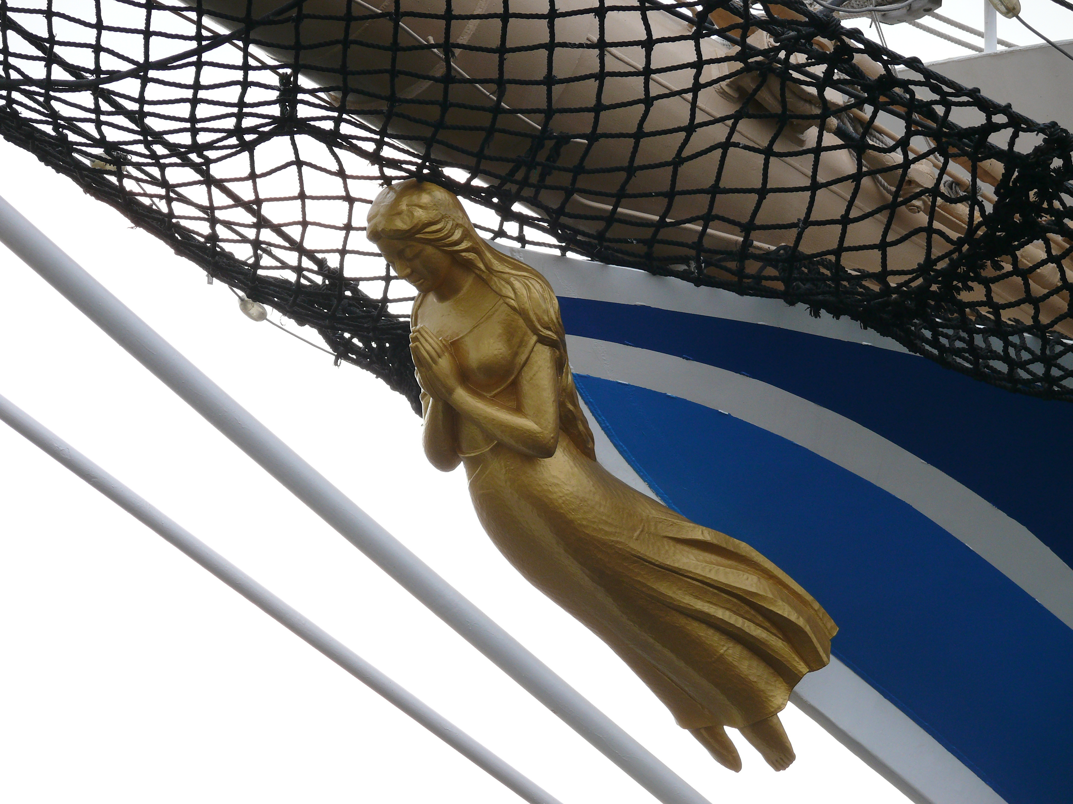 Nihonmaru II.